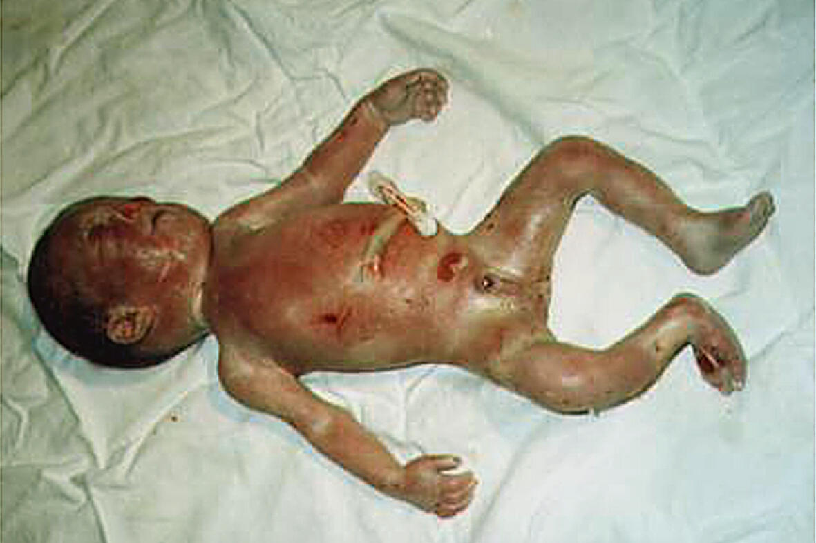 Photograph of a neonate with the Wolf-Hirschhorn syndrome. Note the hypospadias and calcaneovalgus deformity of the foot.